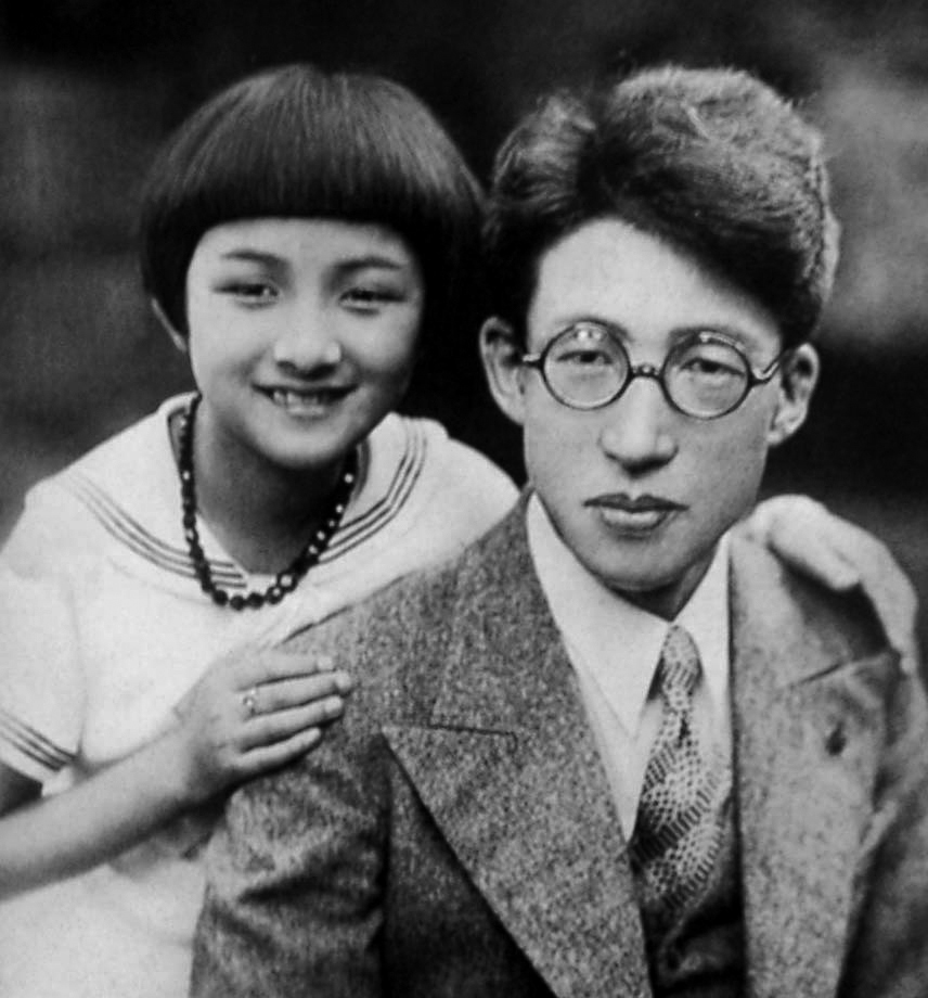 Hideko Takamine (1924–, left) and Tarō Shōji (1898–1972)